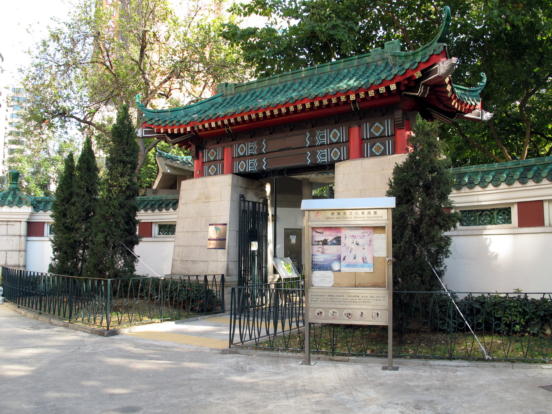 King George V Memorial Park, Kowloon